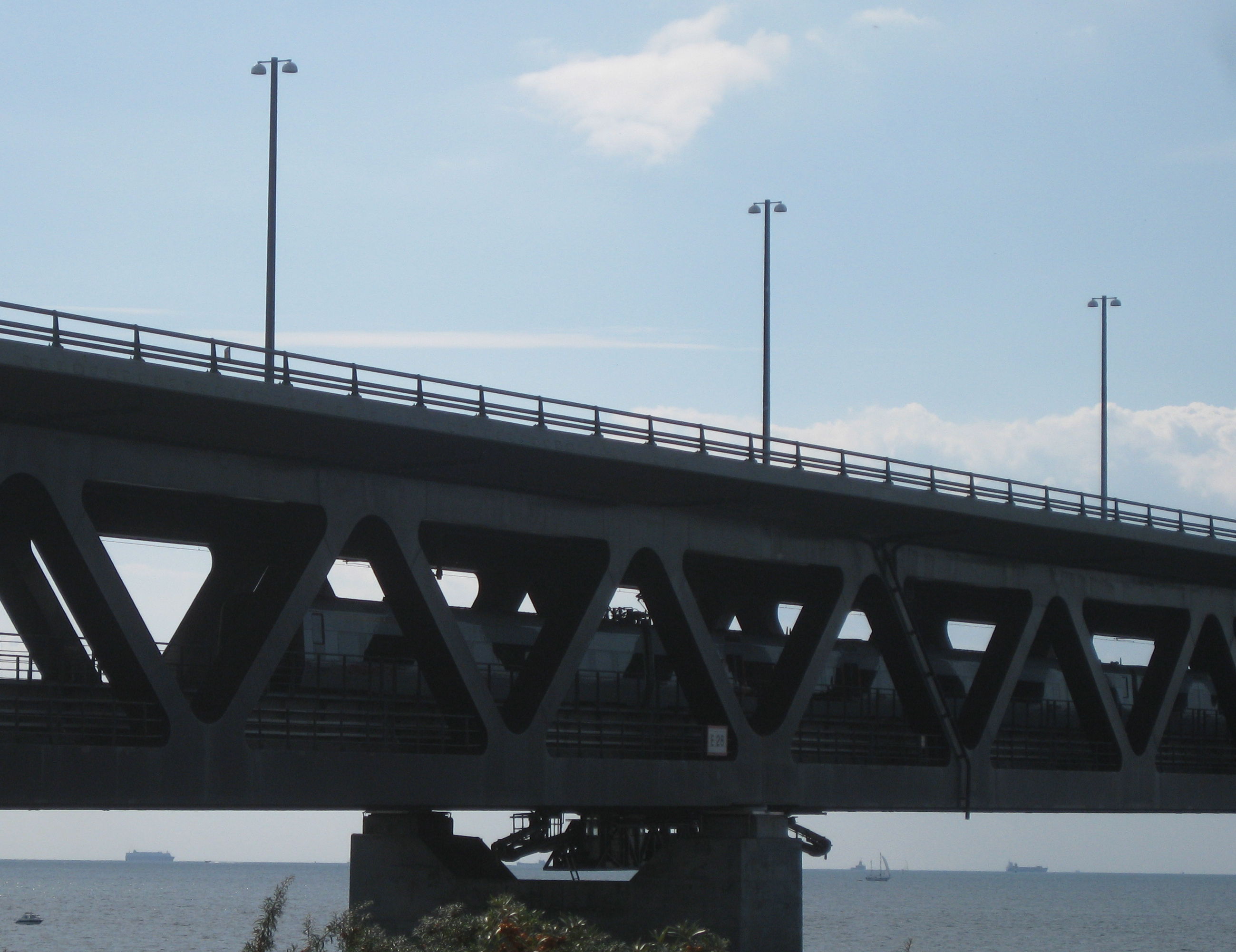 The Öresund Bridge with an Öresund train on the lower plane.